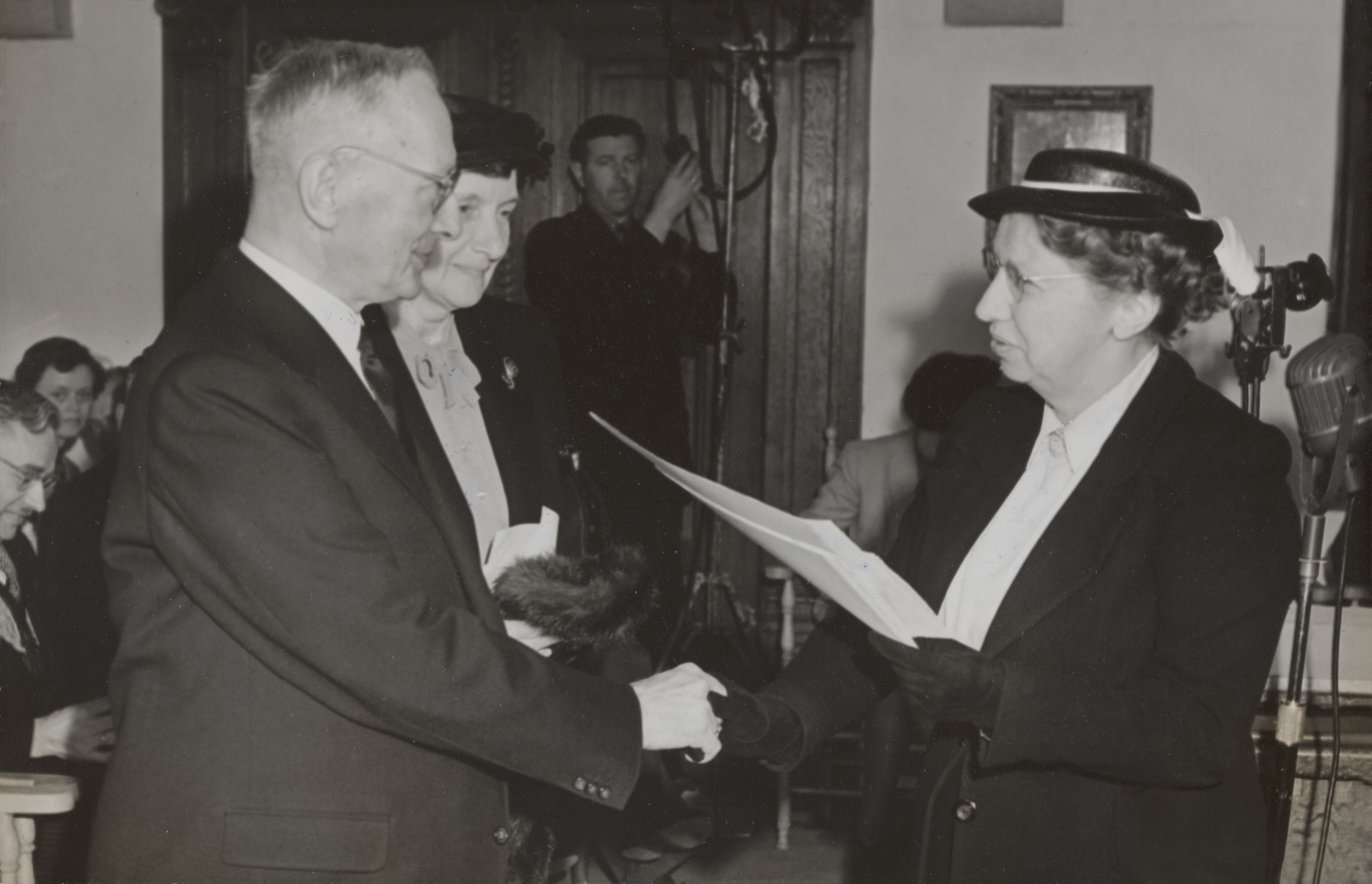 P,C, Hooftoprijs 1953 voor F. Bordewijk, in mei 1954 in het Muiderslot uitgereikt door staatssecretaris Anna de Waal. Tussen beiden in zichbaar: componiste Johanna Bordewijk-Roepman